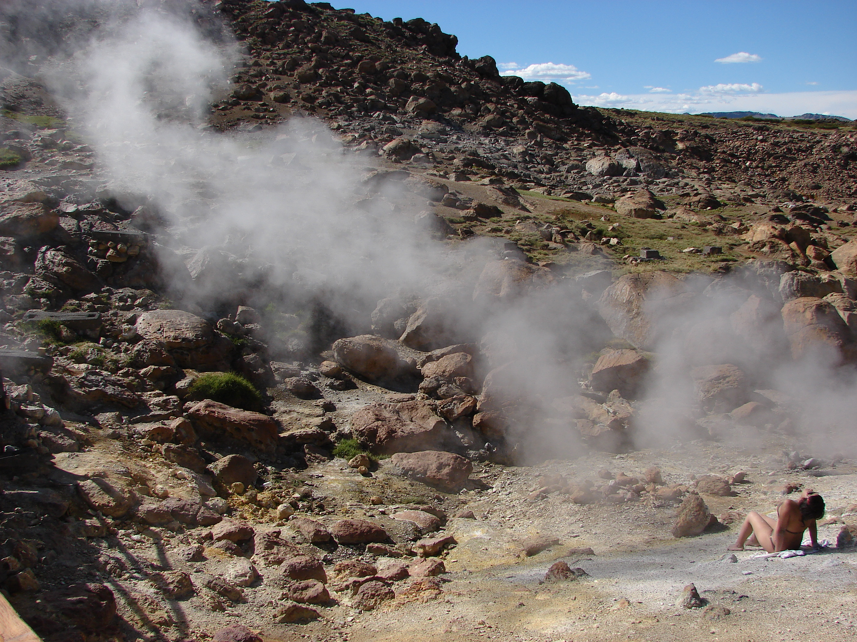 Sulphuric fumarola at Las Maquinitas hot springs, close to Copahue -Argentina